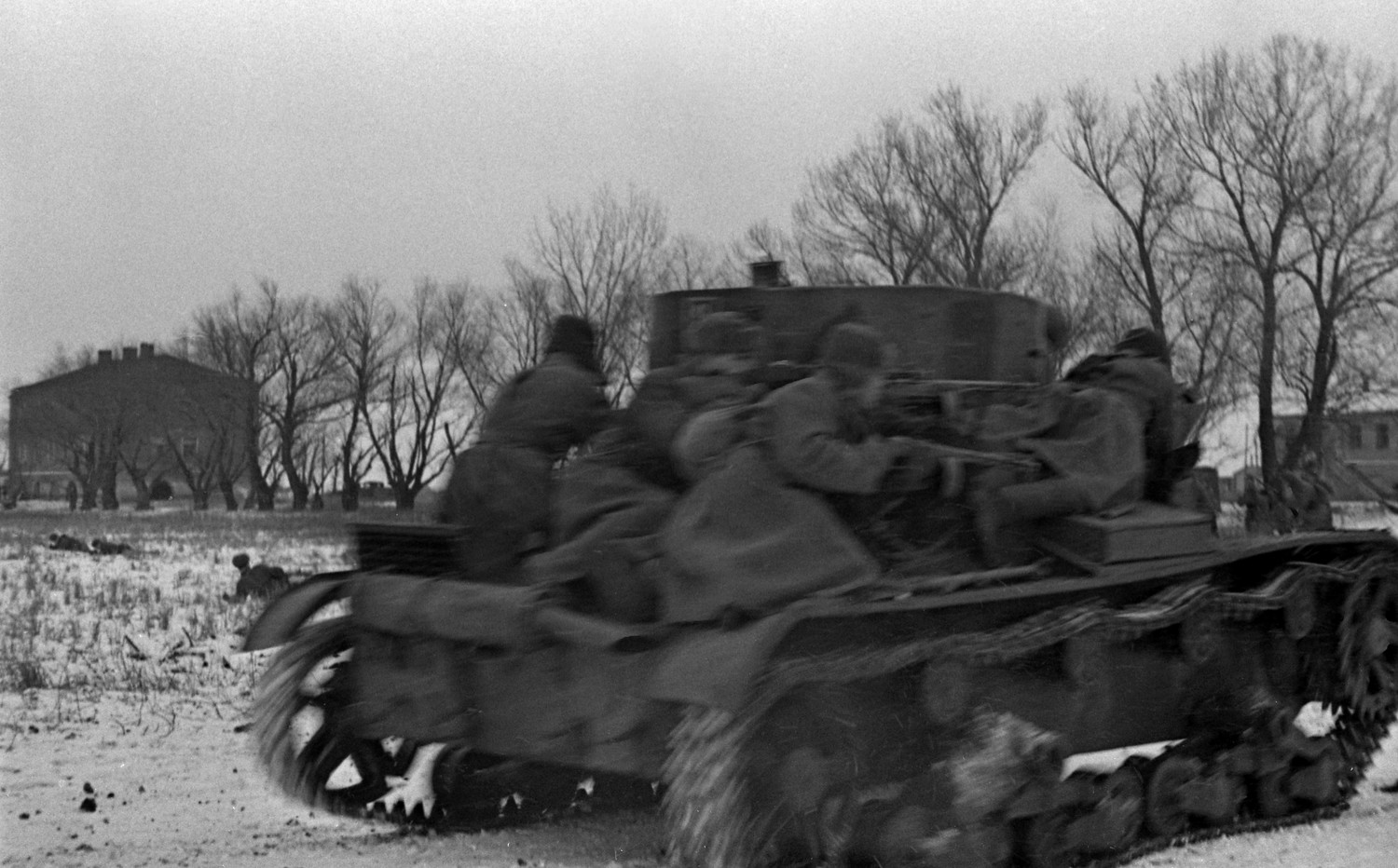 “Tank assault force in Korsun-Shevchenkovski region”. The Great Patriotic War of 1941-1945. Tank assault force on T-26 in Korsun-Shevchenkovski region. 1944.